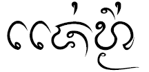 Lanna script – Chae Hom is a district (amphoe) of Lampang Province, northern Thailand.